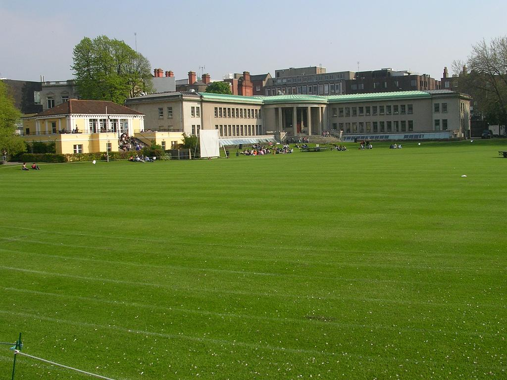 Trinity_College